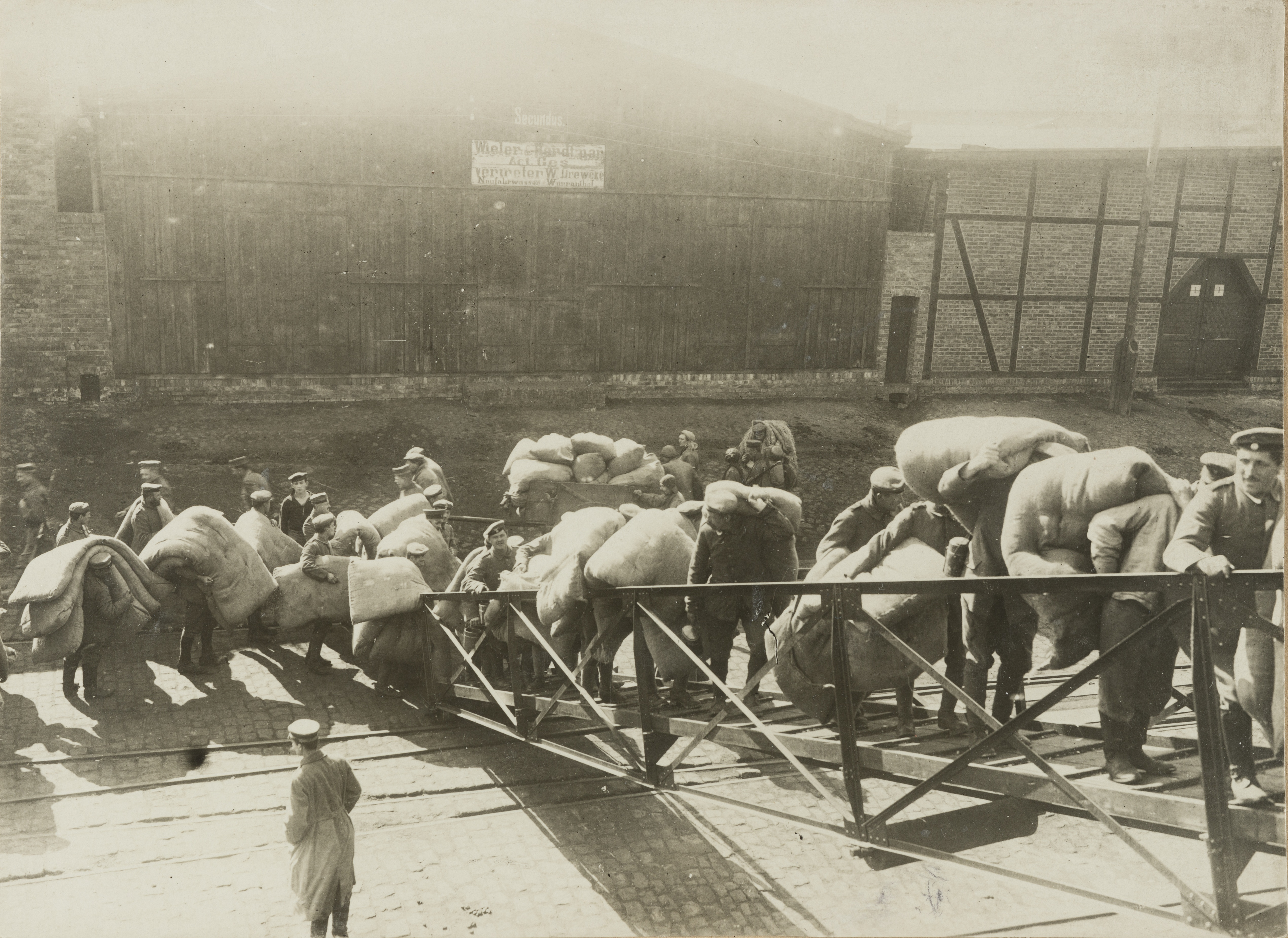 German Baltic Sea Division boarding in Danzig on their way to Hango, Finland.